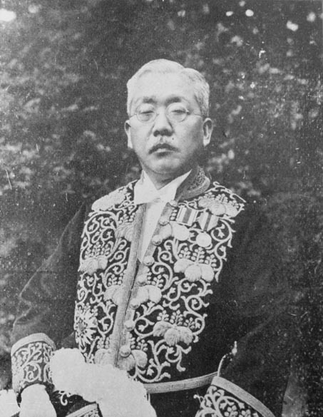 Masatsugu Tsukahara, 5th director of the Hiroshima Higher Normal School.